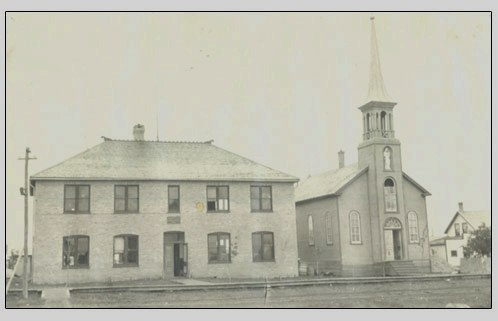 Predecessor of Blessed Sacrament Roman Catholic Church on Scarth Street as Regina's downtown Catholic church. Other information Photo of the first downtown-Regina Roman Catholic parish church and separate school.